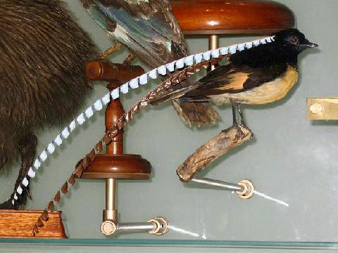 Description: King of Saxony Bird of Paradise - Source: own work - Location: American Museum of Natural History, New York - Author: self, User:Stavenn